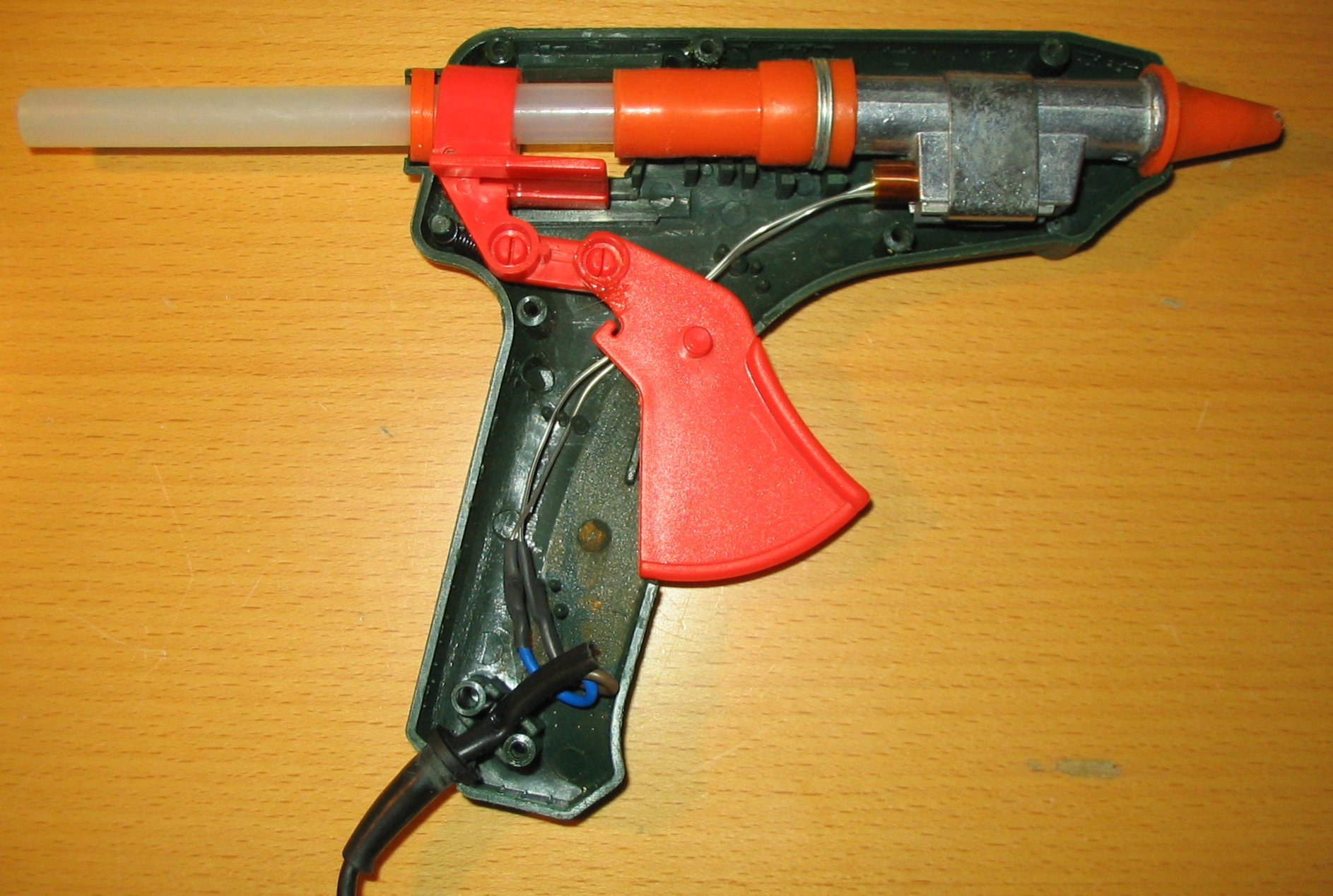 Typical intern of a Hot Glue Gun